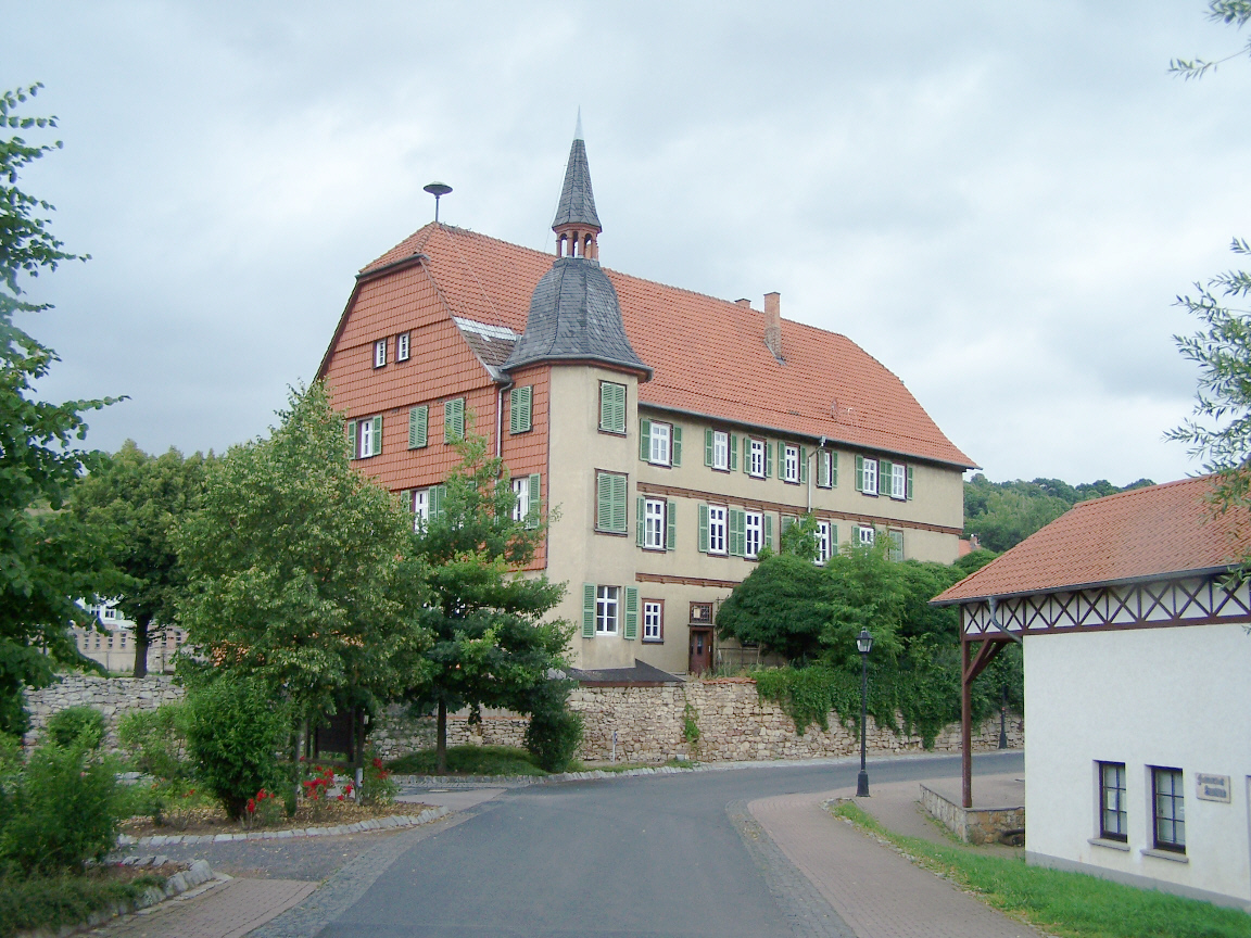 The so called Unteres Schloss (lower castle) in Stedtfeld.